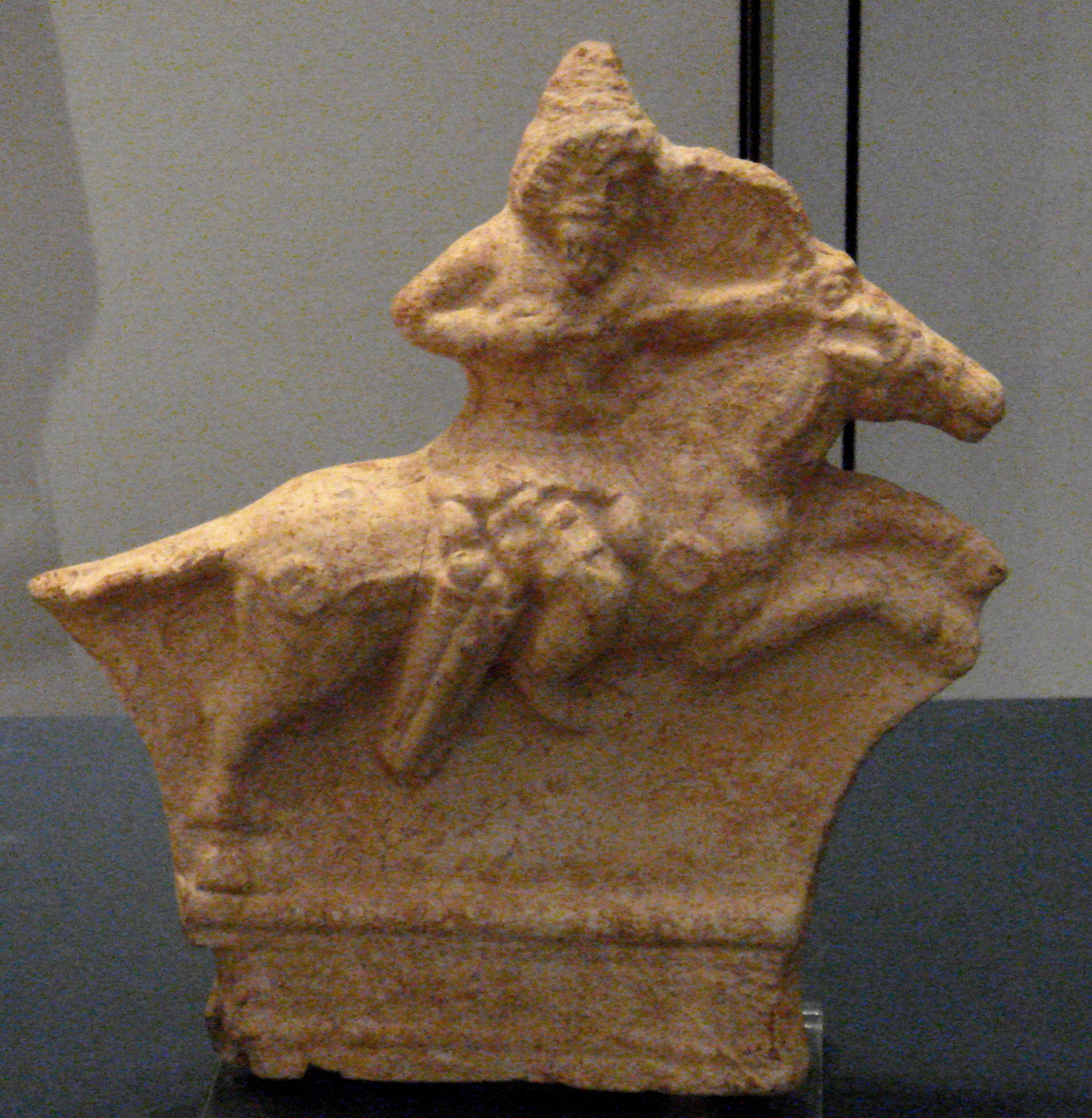 Parthian cavalryman. Museum number : 135684 ; Syria ?